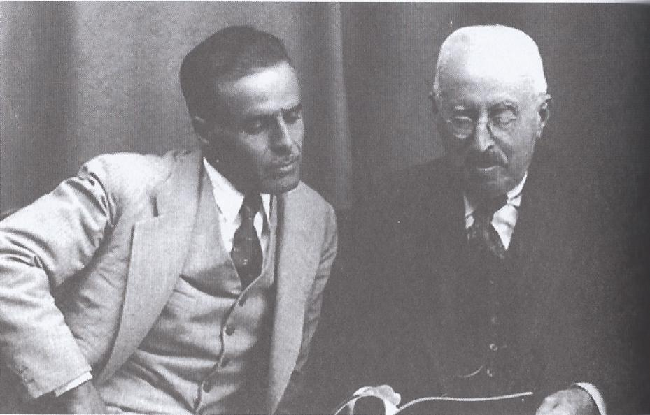 Habib Bourguiba and Chekib Arslan